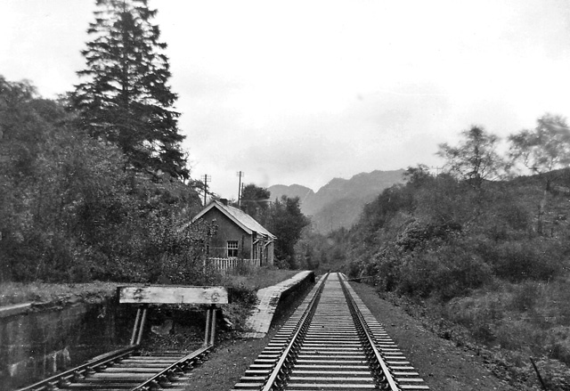 Beasdale Station (Private). View eastward, towards Fort William; Fort William - Mallaig line. Formerly a private station for Arisaig House, it was opened to the public on 6/9/65 and remains so.